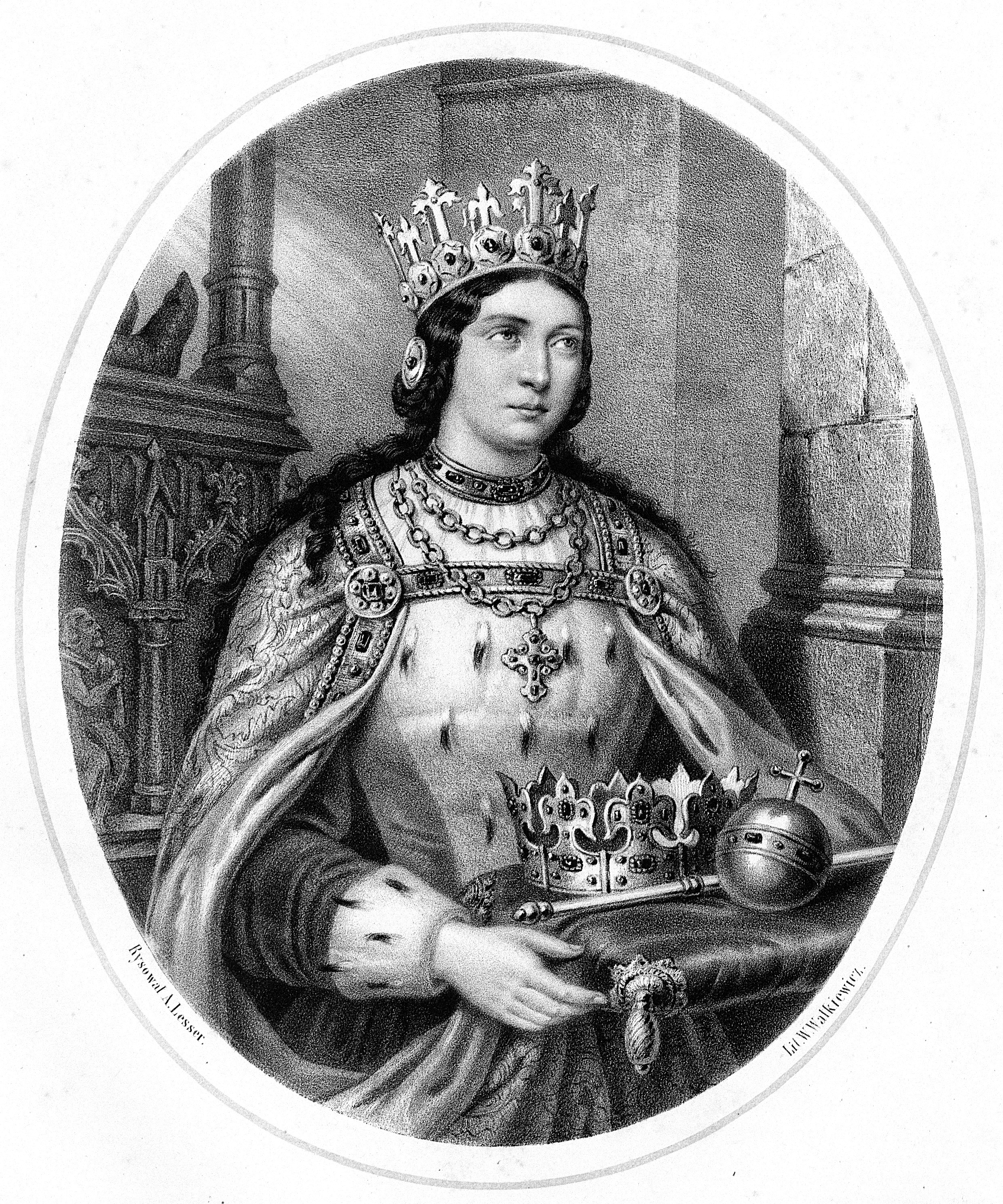 Hedwig, Queen of Poland